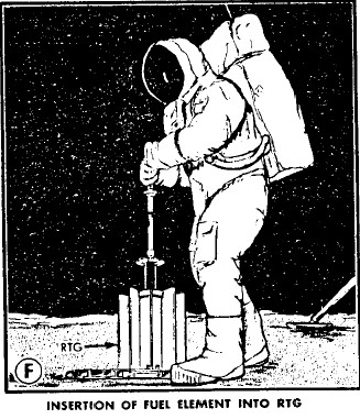 Insertion of fuel element into RTG